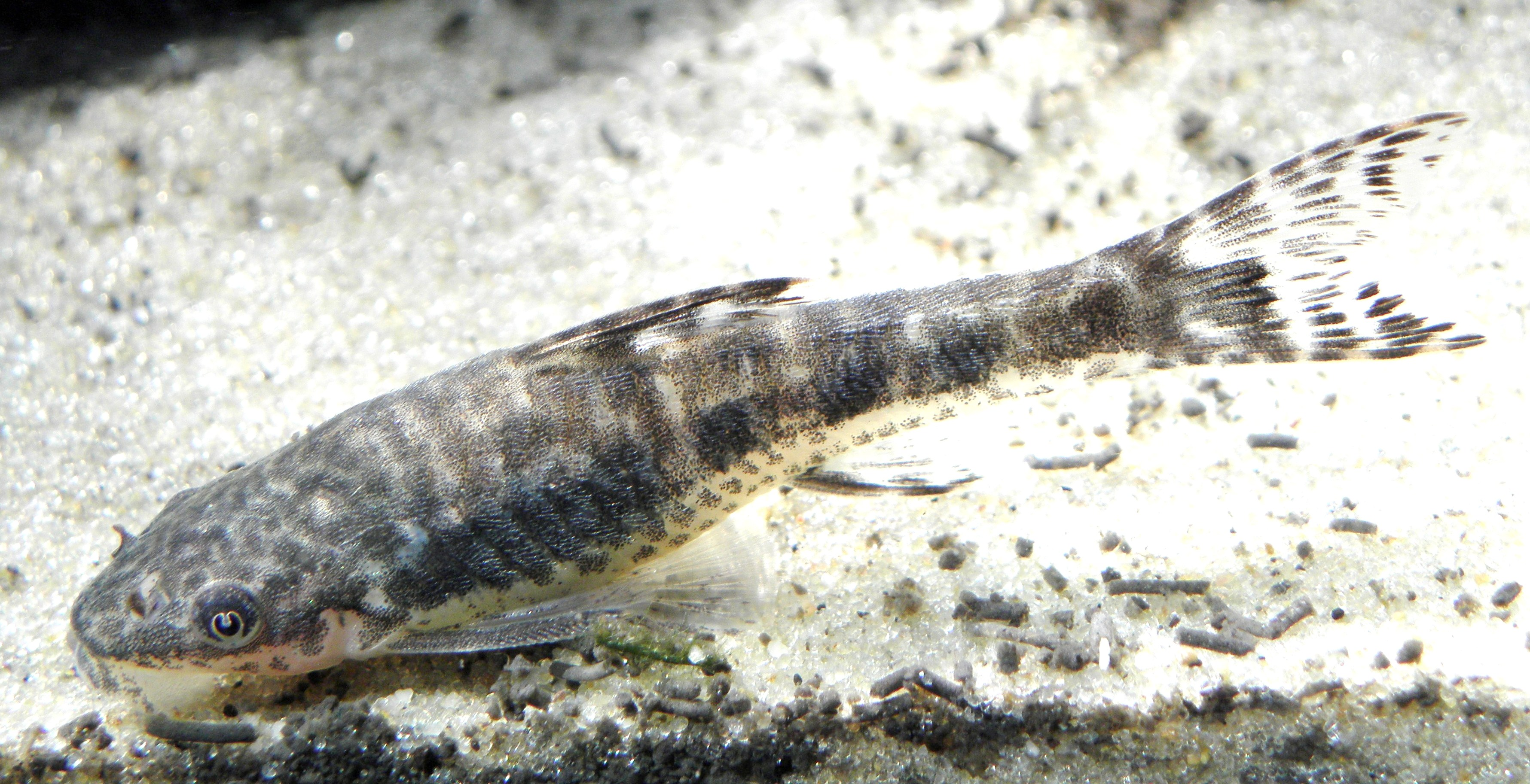 "Dwarf suckers" or "otos" (Otocinclus arnoldi).